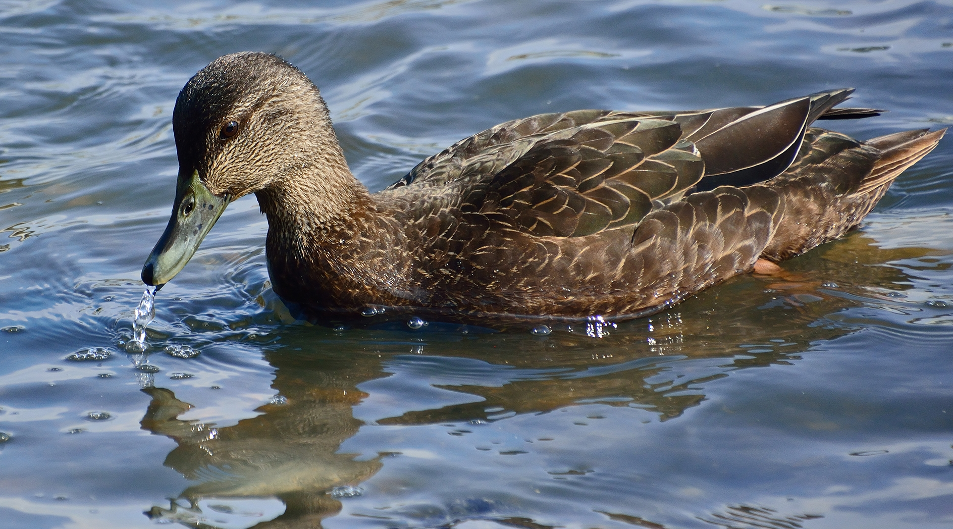 American Black Duck Anas rubripes, Hudson River, New Jersey, USA.